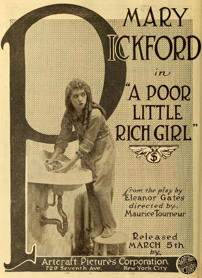 Advertisement in Moving Picture World for the film The Poor Little Rich Girl (1917).